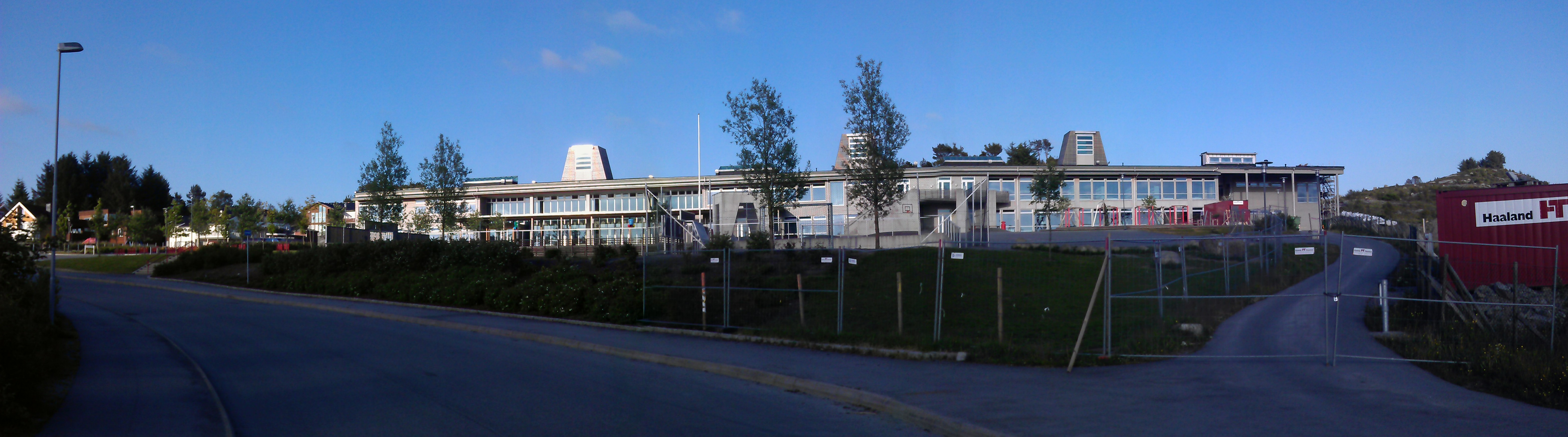 Elementary school at Vormedal, Karmøy.